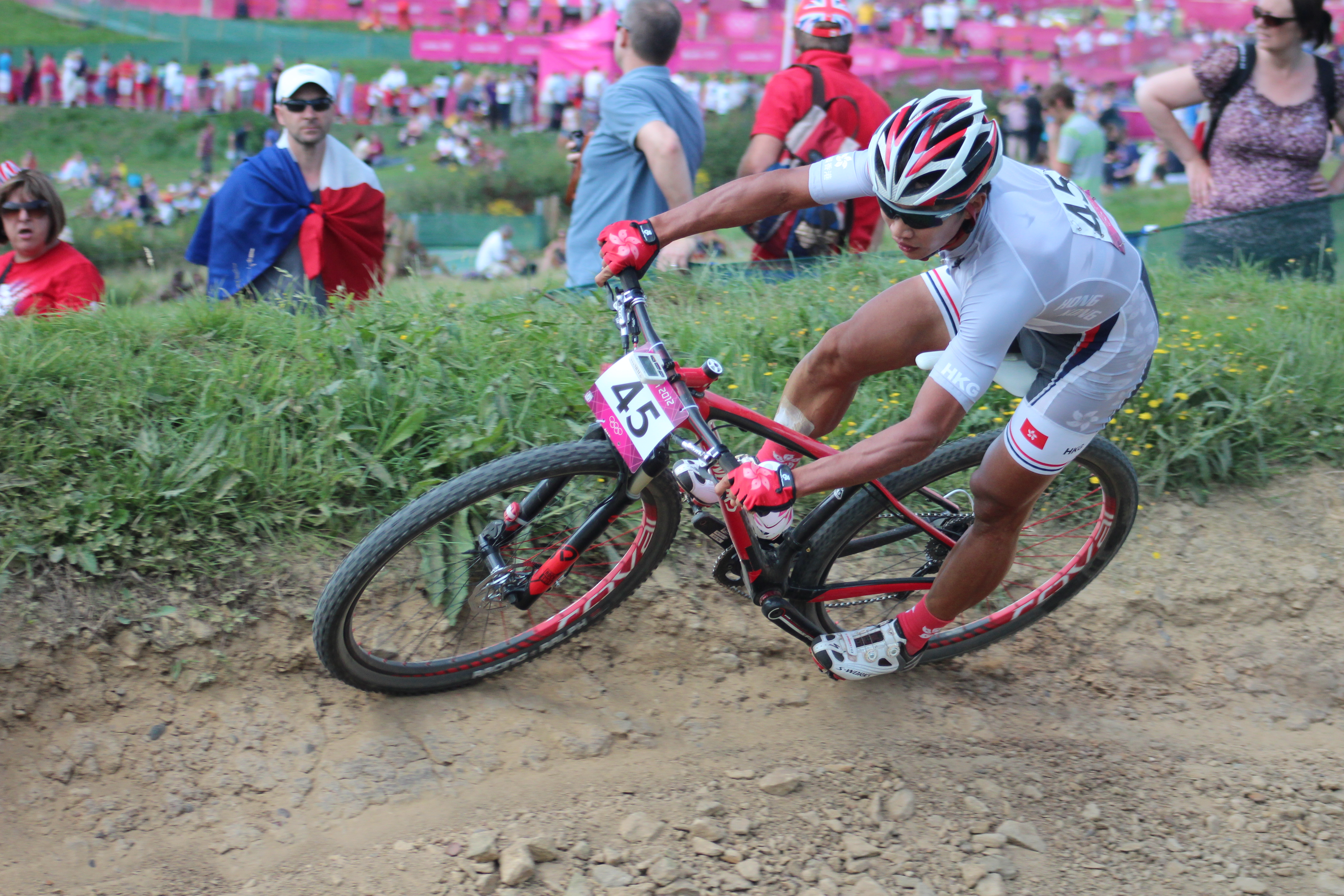 Olympic Mountain Biking - 11/12 August 2012. Hadleigh Farm.